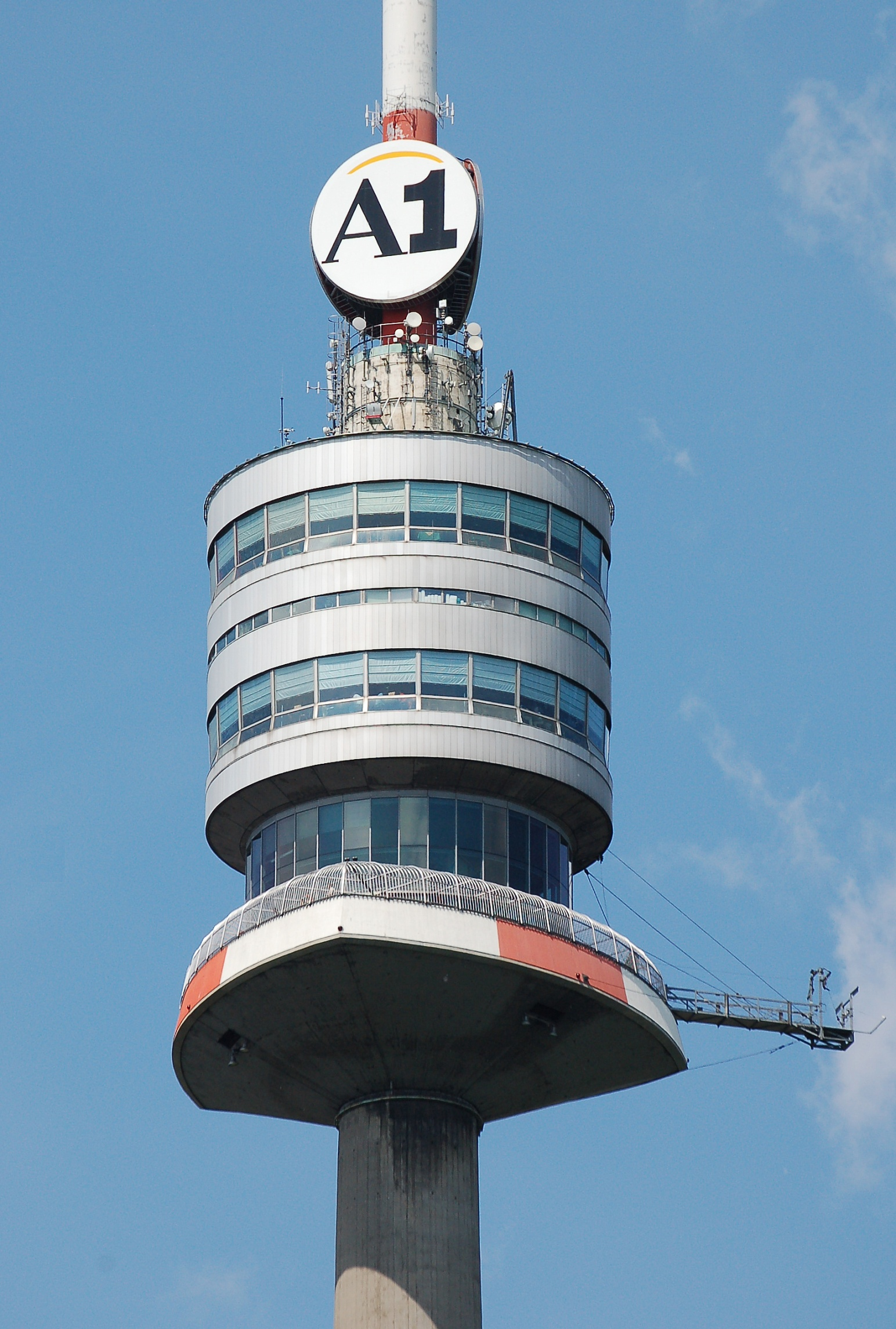 Austria, Vienna, Donauturm